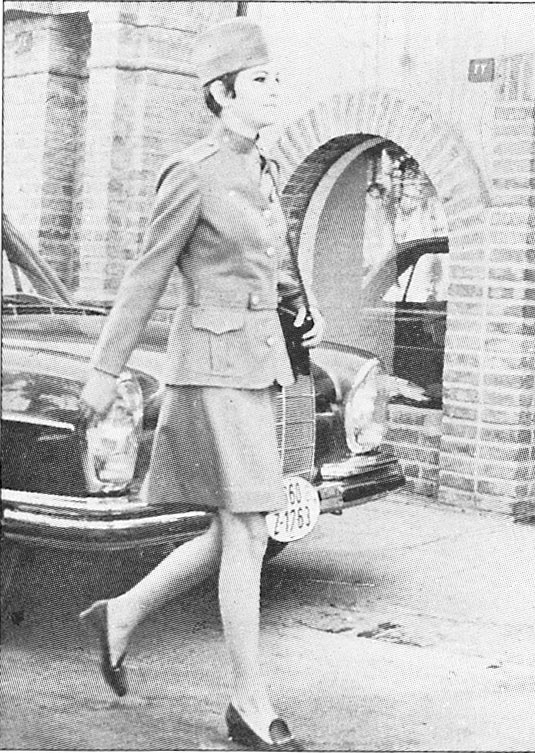 Young girls joins Literacy Corp